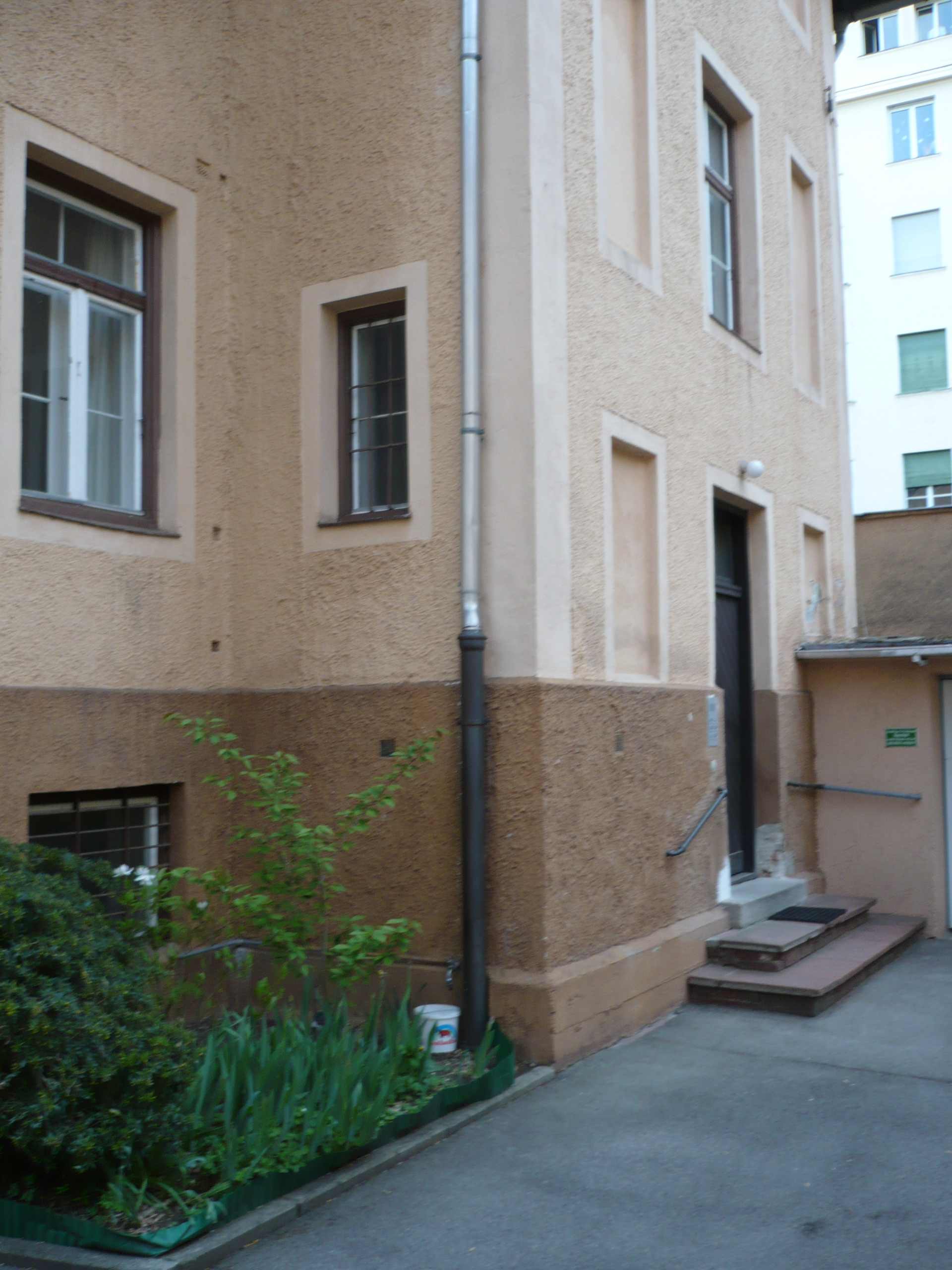 House of Emma Andijewska in Munich